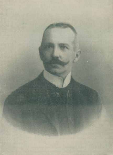 Heinrich Gf. v. Attems-Heiligenkreuz,1858-1937, K.u.K. GRat., Km. u. Landespräsident im Hzgt. Krain, Sohn des Anton August Paul Gf. v. Attems-Heiligenkreuz, 1819-1909, und der Josefa, 1830-1909, geb. Gfin. Mistruzzi-Freysingher), President of Duchy of Carniola